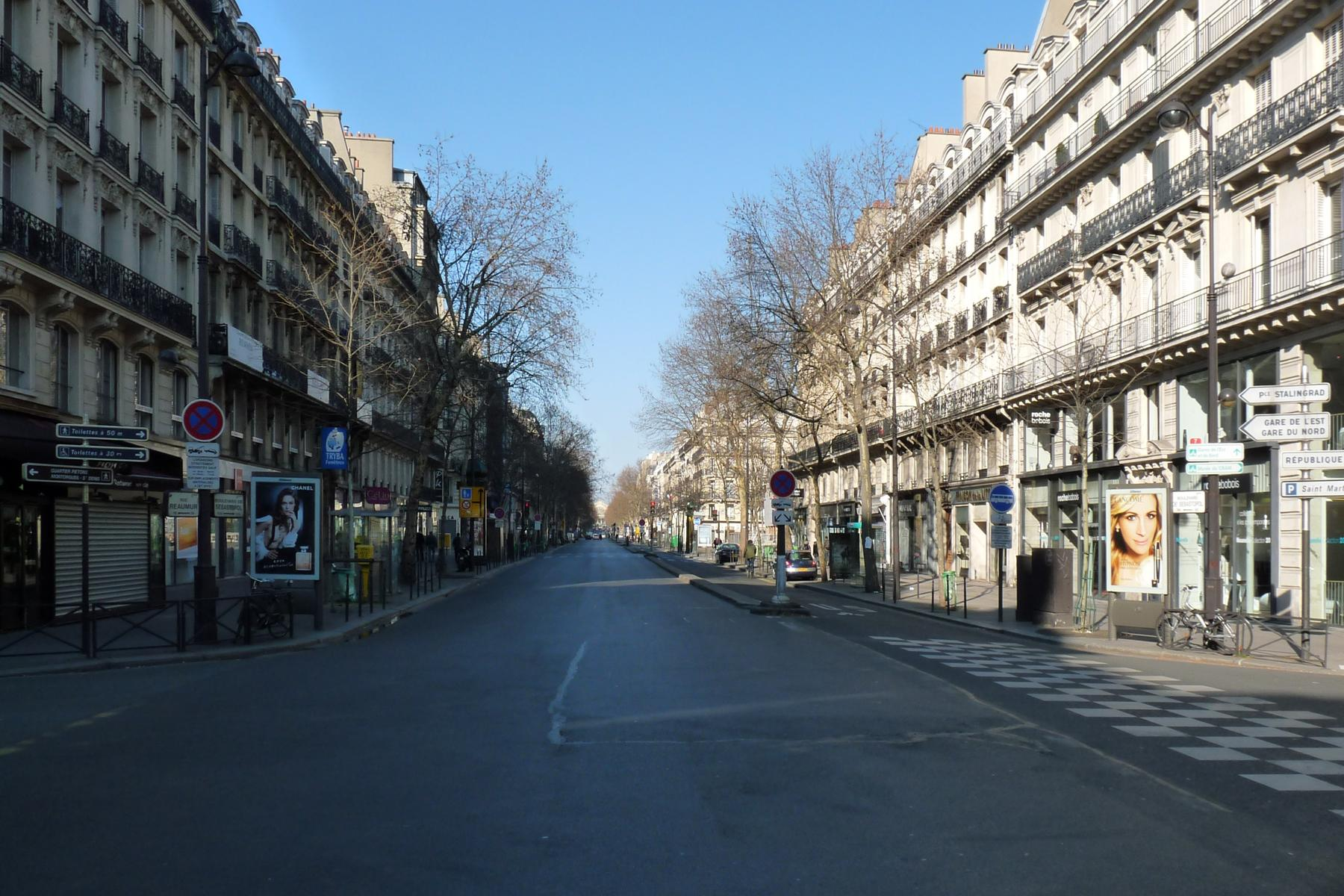 Boulevard de Strasbourg, looking north from the rue de Réaumur